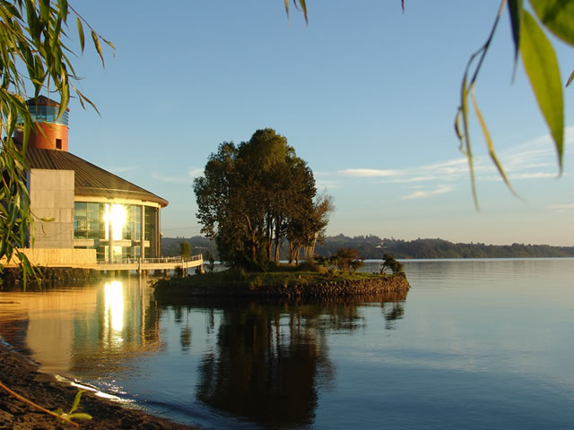 Teatro del Lago, Frutillar, at sunrise, view from right (south) side